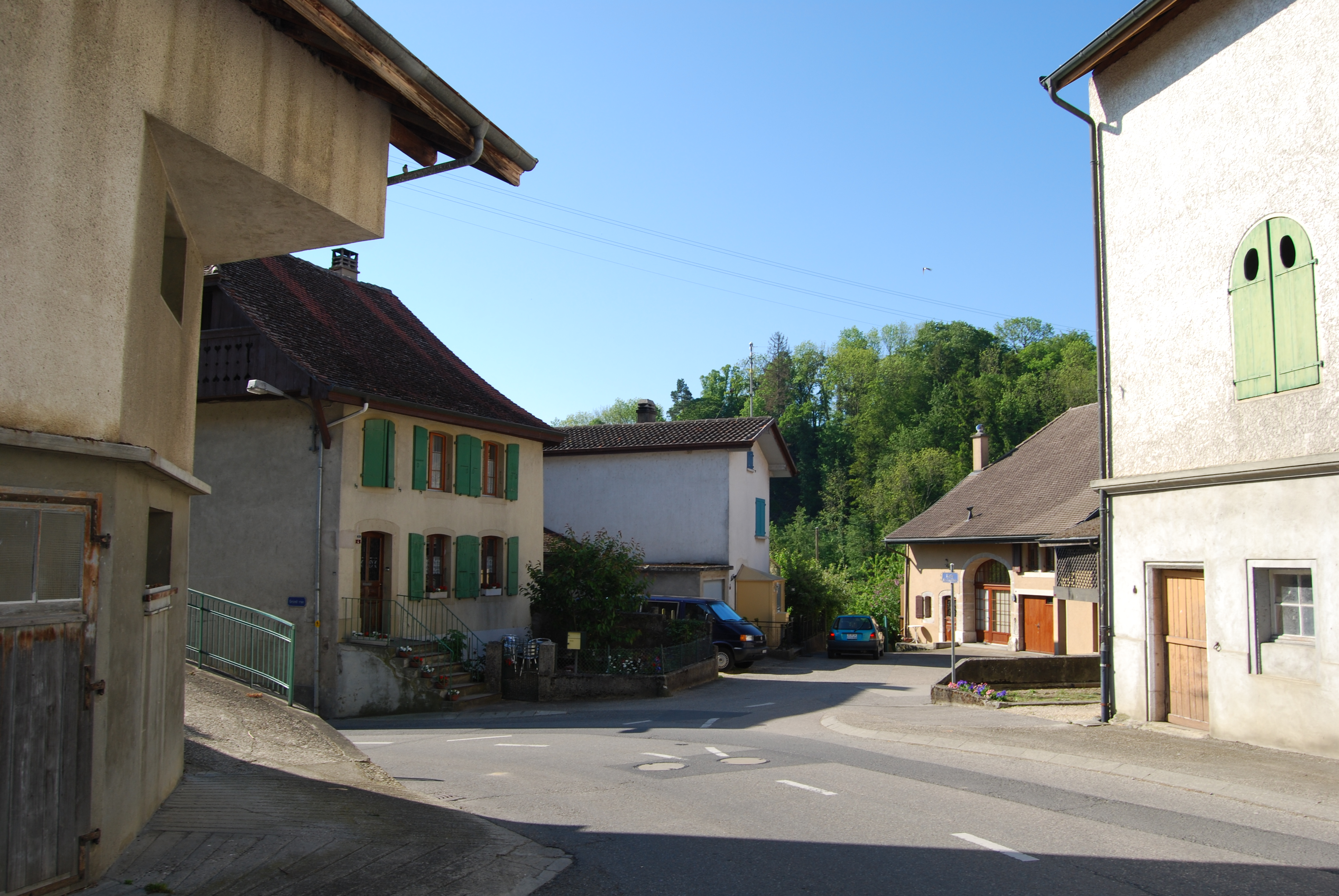 Valeyres-sous-Montagny, canton of Vaud, SwitzerlandEsperanto: Valeyres-sous-Montagny, Kantono Vaŭdo, Svislando